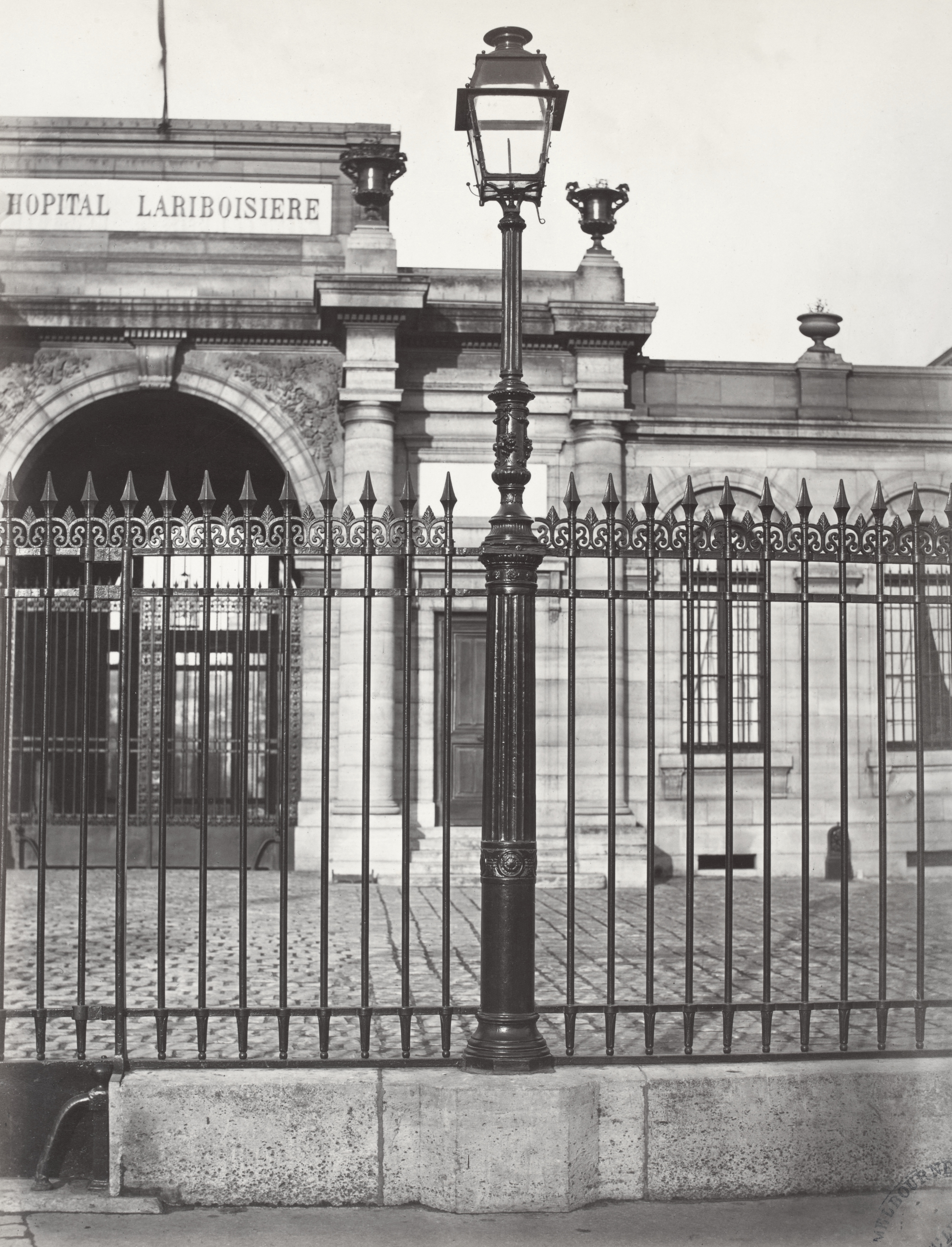 Single lamp on iron lamp stand incorporated into iron railing fence in front of brick paved courtyard and building.